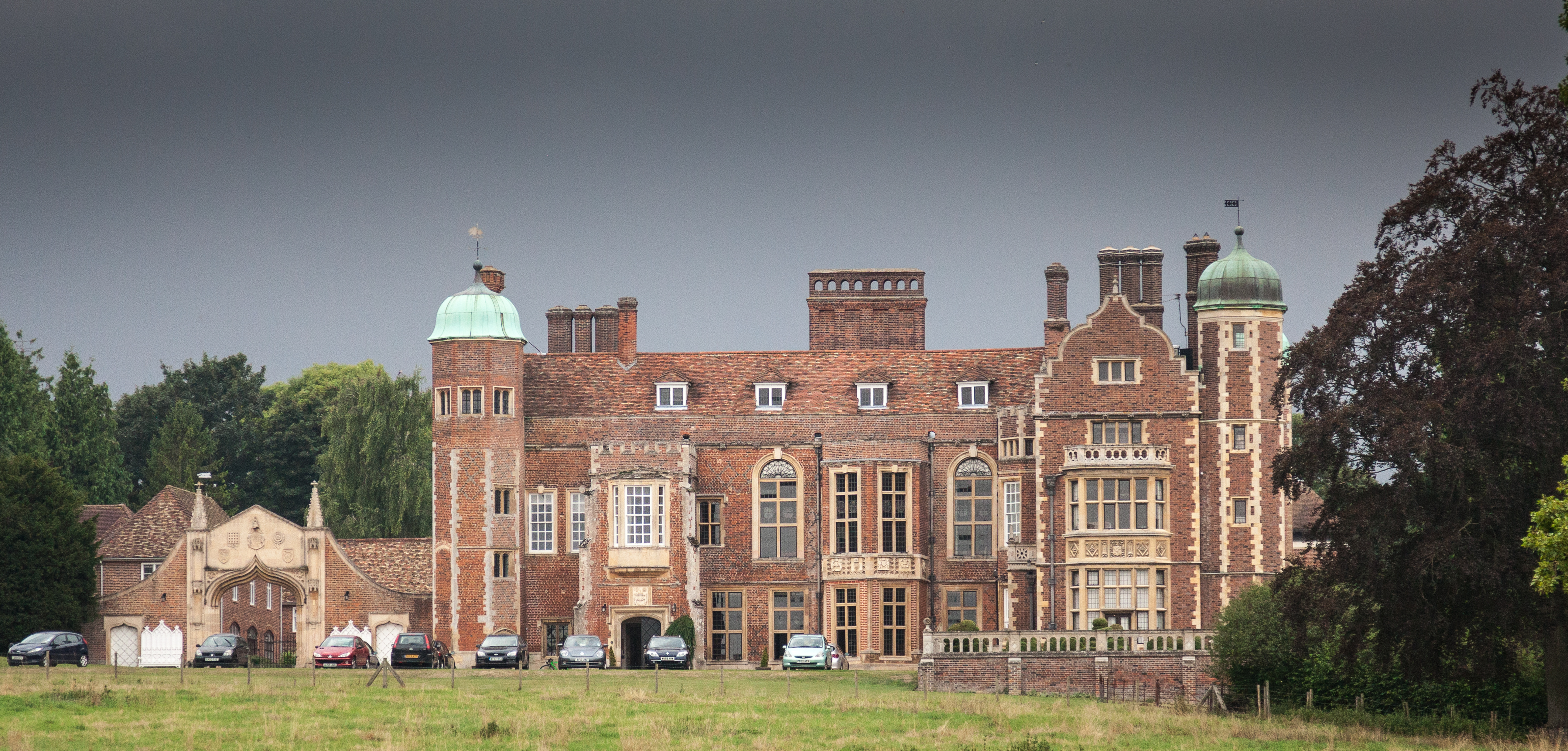 Madingley Court front elevation Aug 2013